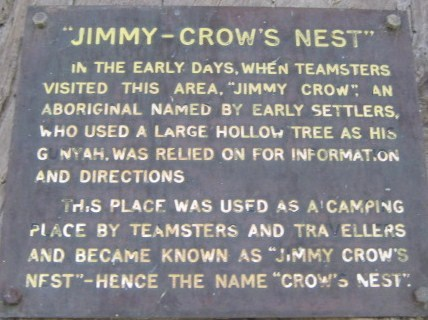 The hollow stump was added and a fig tree was planted in it's top, roots trained down the outside to form a hollowed tree.